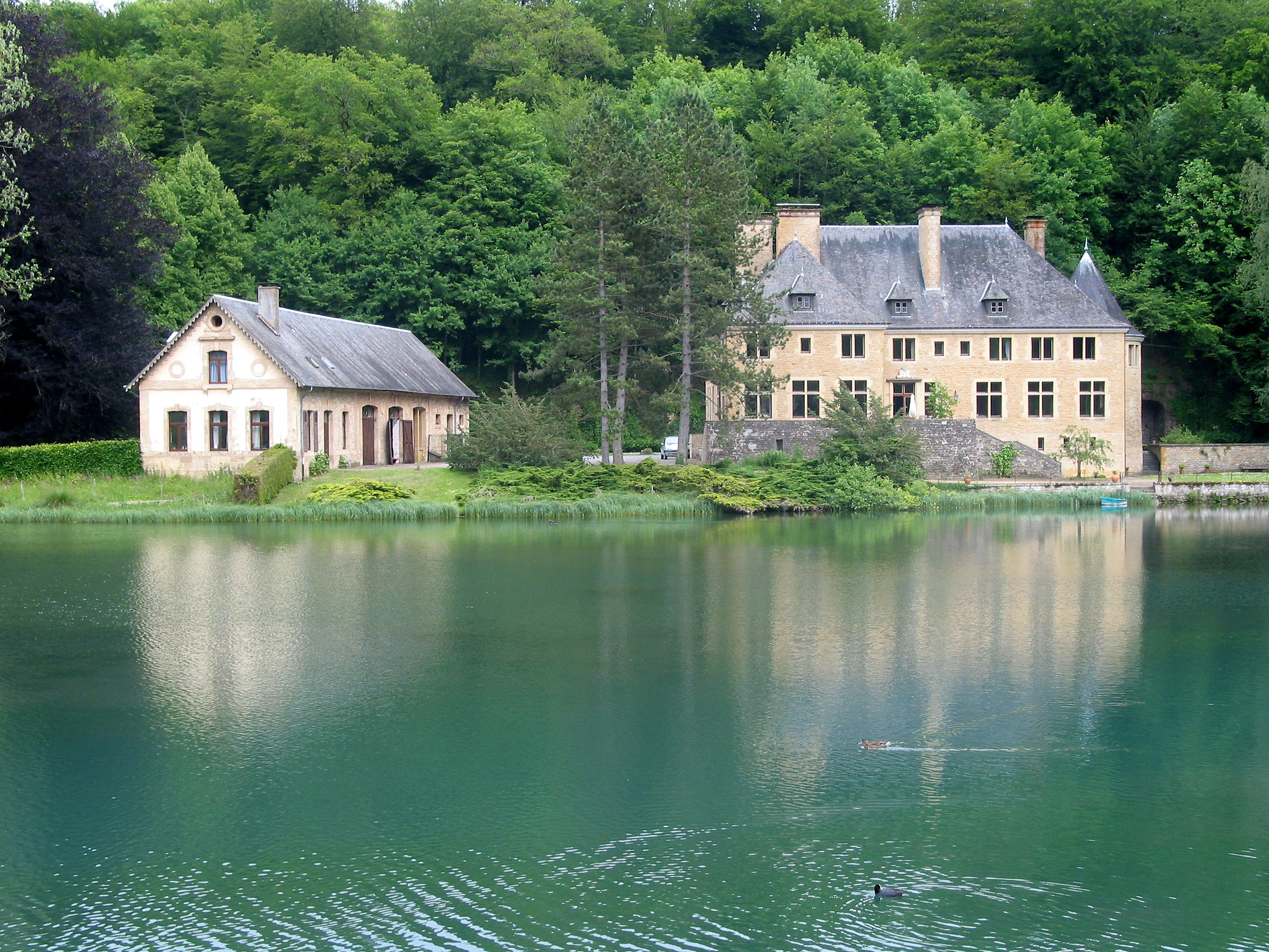 Villers-devant-Orval (Belgium), the pond and the old particulary hotel of an ironmaster (1757).